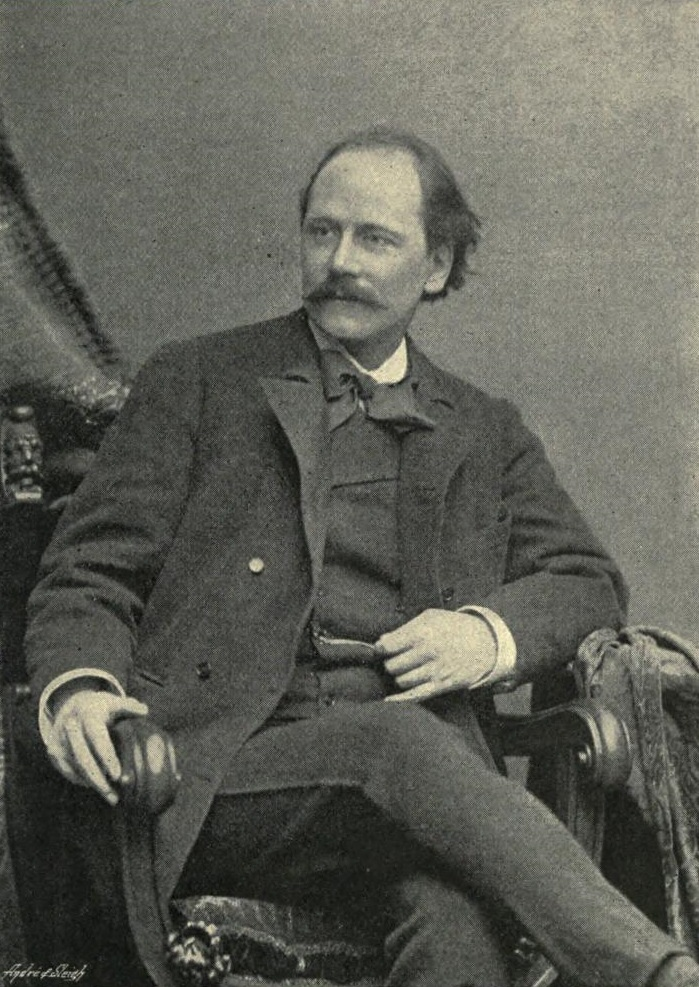 Portrait of Jules Massenet